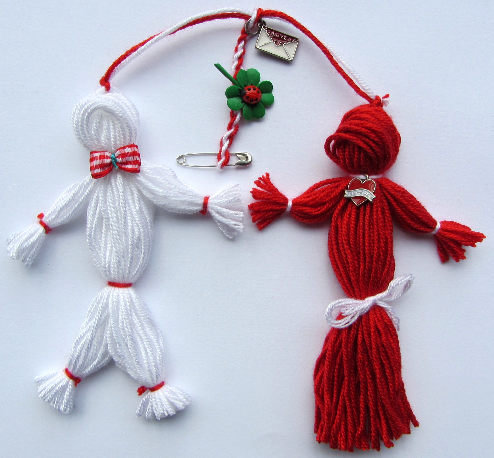 self-made Martenitsa